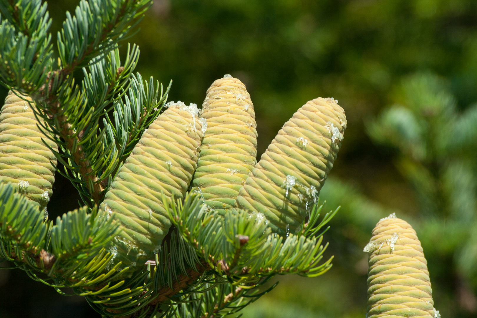 Manchurian Fir Abies holophylla, cones with resin Botanical Garden CZRB PAN - Powsin, Warsaw 2013-08-06